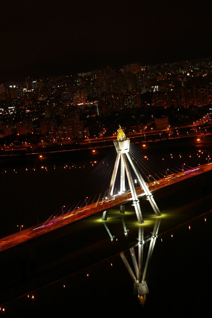 Olympic Bridge, South Korea